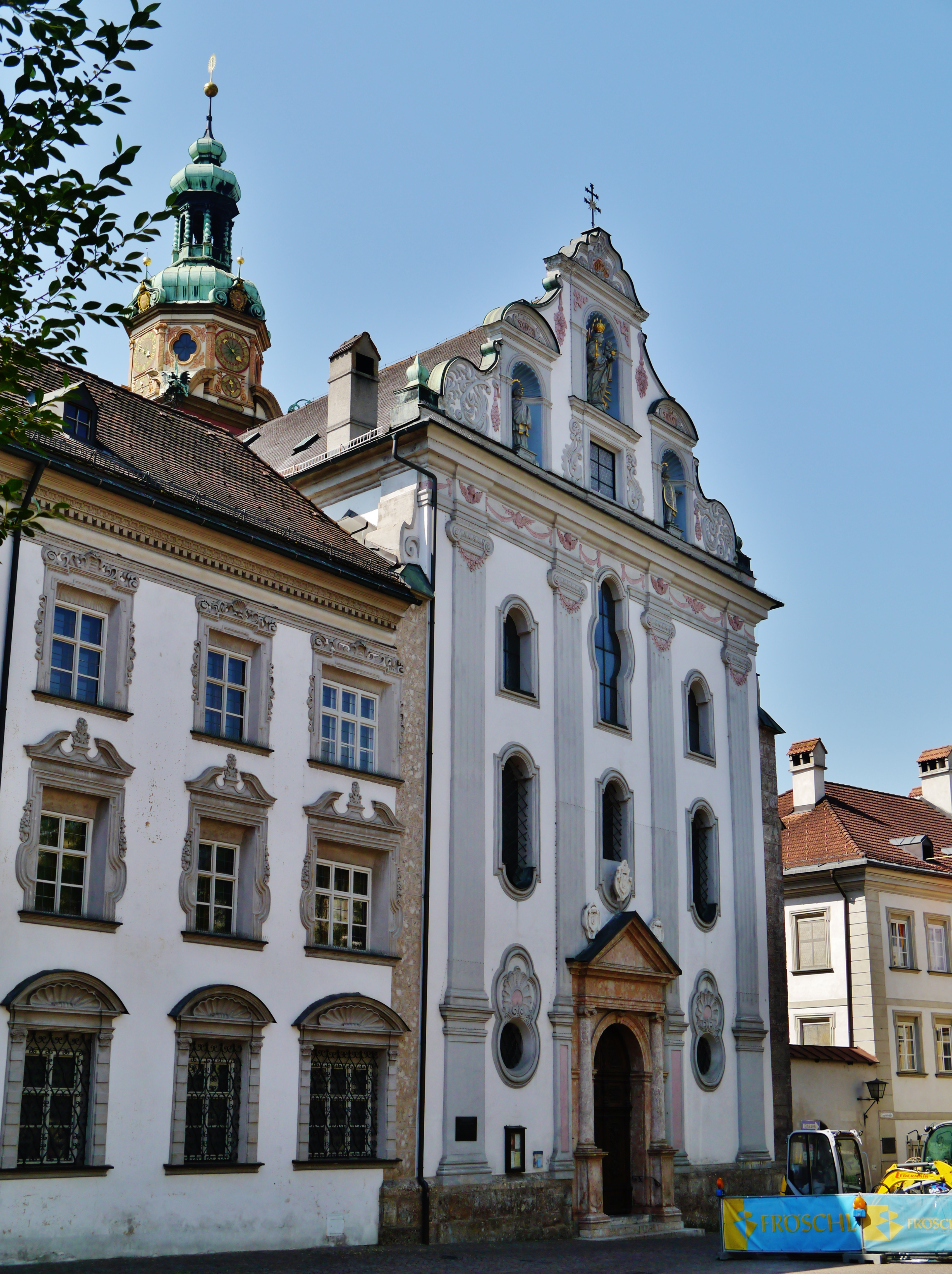 Facade of the Basilica of the Heart of Jesus, Hall in Tirol, Tyrol, Austria